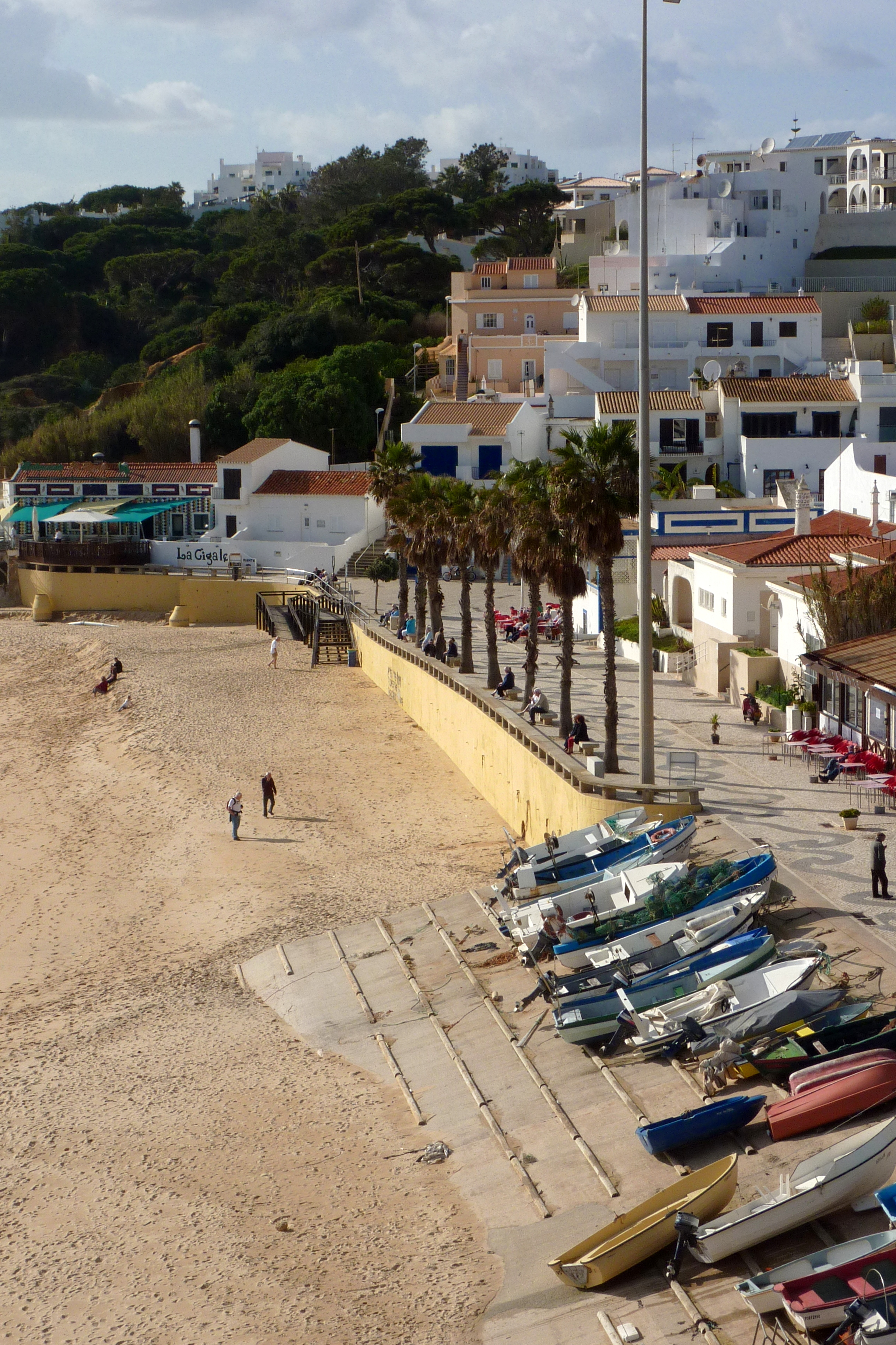 Olhos De Agua - View from the cliffs